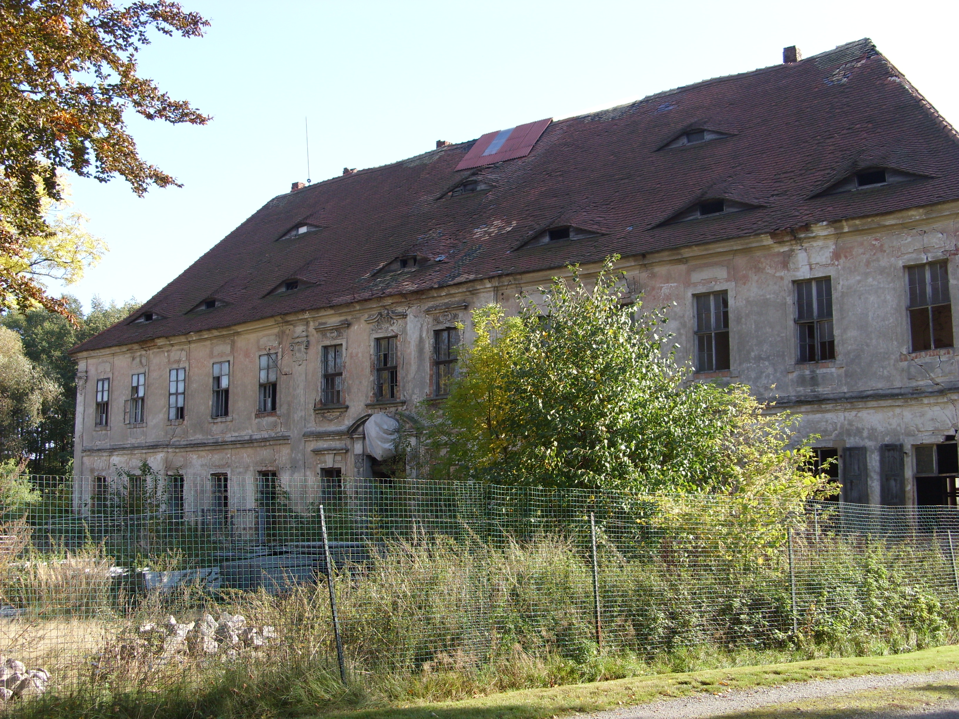 Farm house of the old estate in Jeßnitz (sorbian Jaseńca, Bautzen district). Hornjoserbsce: Dom knježka w Jaseńcy.